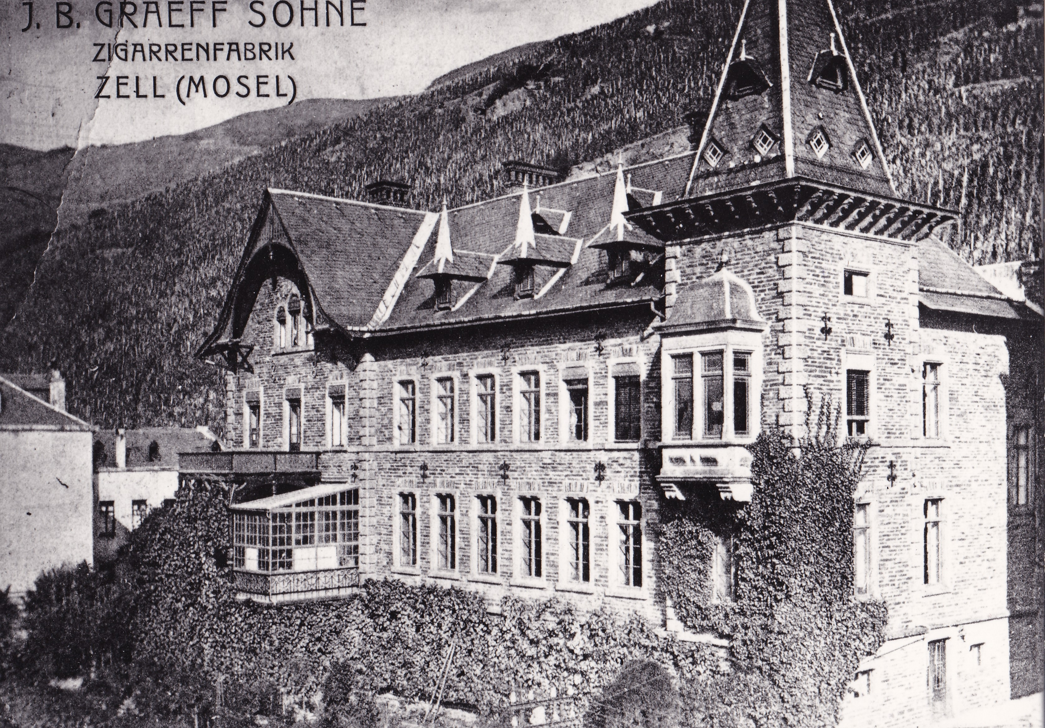 Picture of the old Tabacco Company J. B. Graeff Sons in Zell Mosel